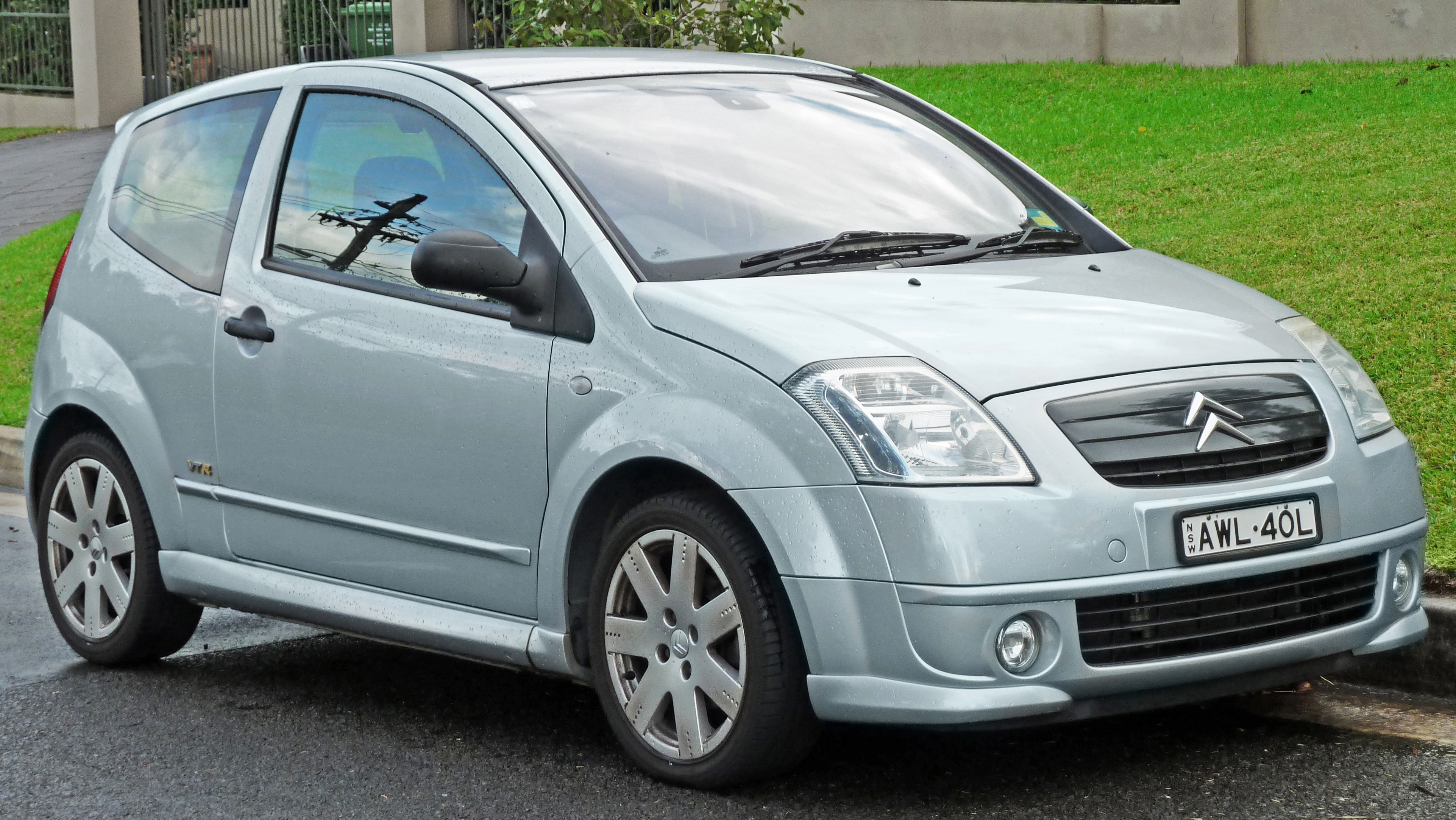 2004–2006 Citroën C2 VTR hatchback. Photographed in Lindfield, New South Wales, Australia.